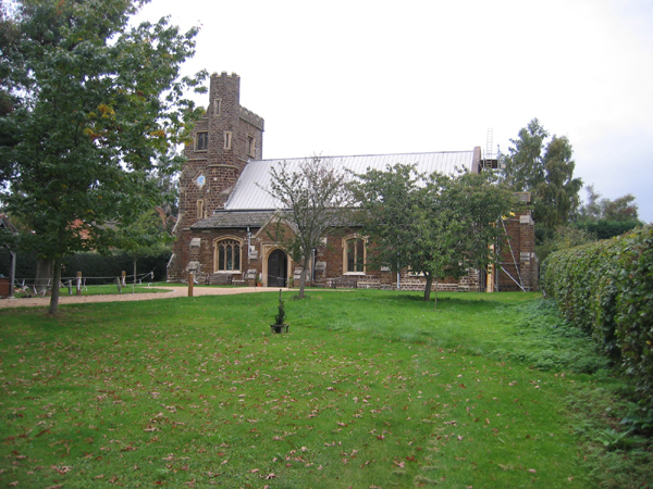 Parish church, Clophill, Beds. Dedicated to St Mary; erected 1848 near the village centre of local sandstone.